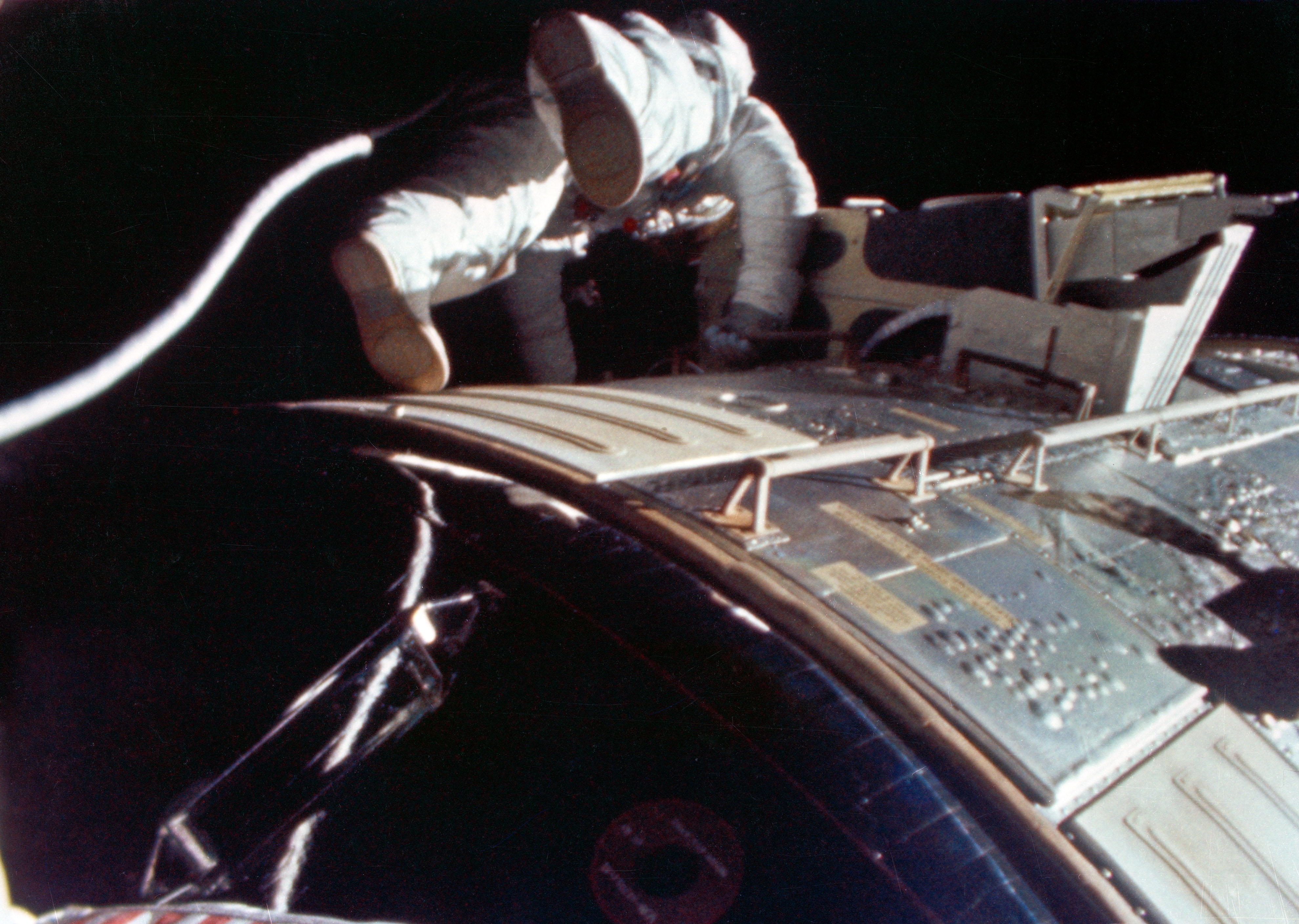 Astronaut Alfred Worden floats in space outside spacecraft during EVA Description: Astronaut Alfred M. Worden, command module pilot of the Apollo 15 mission, floats in space outside of the spacecraft during his transearth extravehicular activity (EVA). This picture was taken from a frame of motion picture film exposed by the 16mm Maurer camera mounted on the hatch of the Command Module. During his EVA Worden made on inspection of the Service Module's Scientific Instrument Module (SIM) bay and retrieved the film cassettes from the Panoramic Camera and Mapping Camera. The EVA occurred when the spacecraft was homeward bound approximately 171,000 nautical miles from Earth. ID: S71-43202